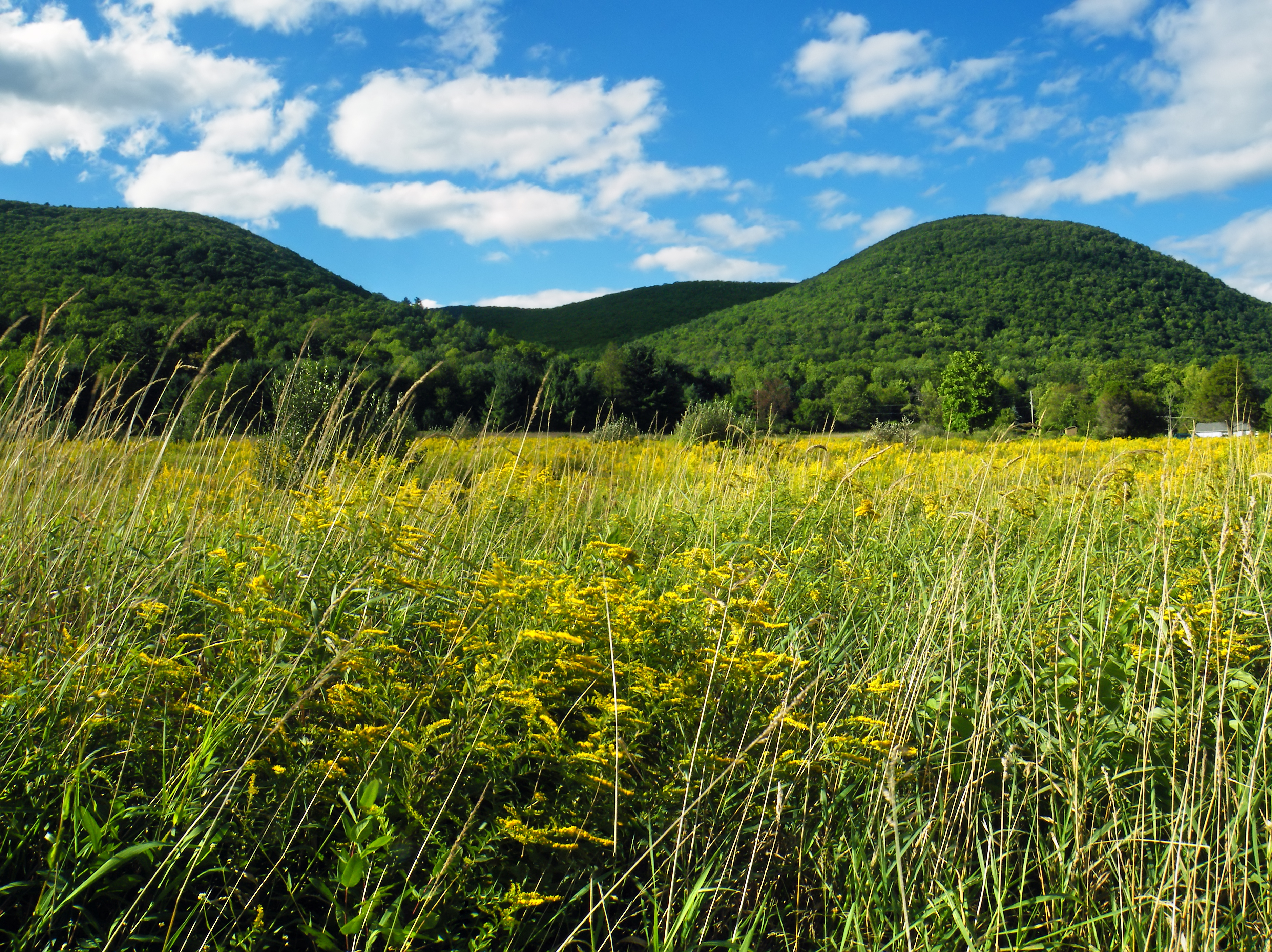 Hills and field of goldenrod, Gaines Township, Tioga County.